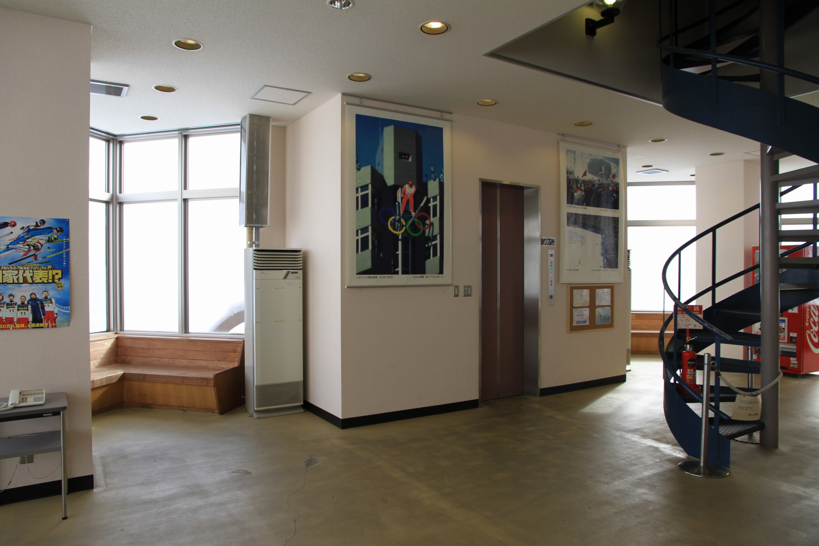 Inside of Hakuba jumping hill Hakuba, Nagano, Japan